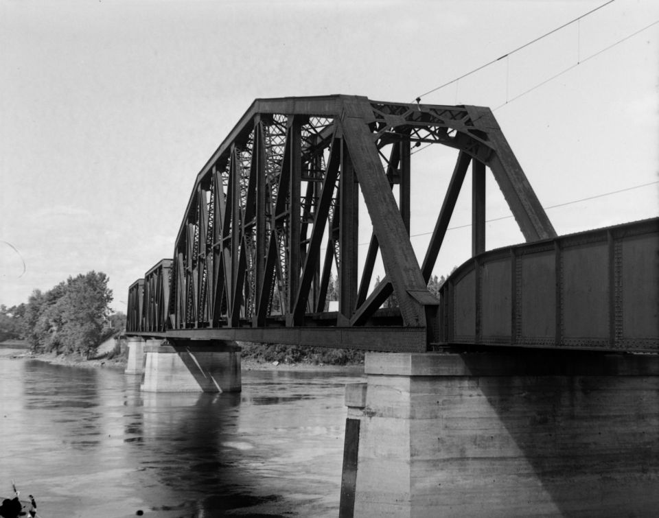 We see the Canadian National railway bridge between Roxboro-Pierrefonds and Laval.